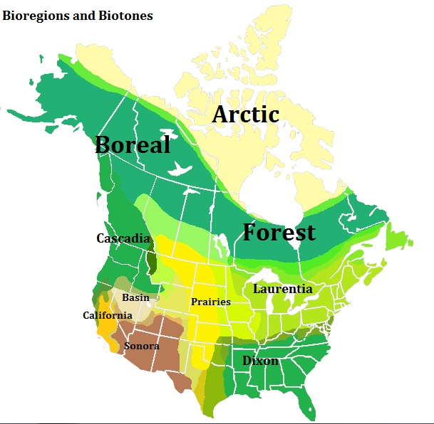 This is a map of North America's bioregions and biotones within the borders of Canada and the United States. The colours represent areas of the continent that have similar and strongly inter-connected biological and hydrological systems. Other information nope